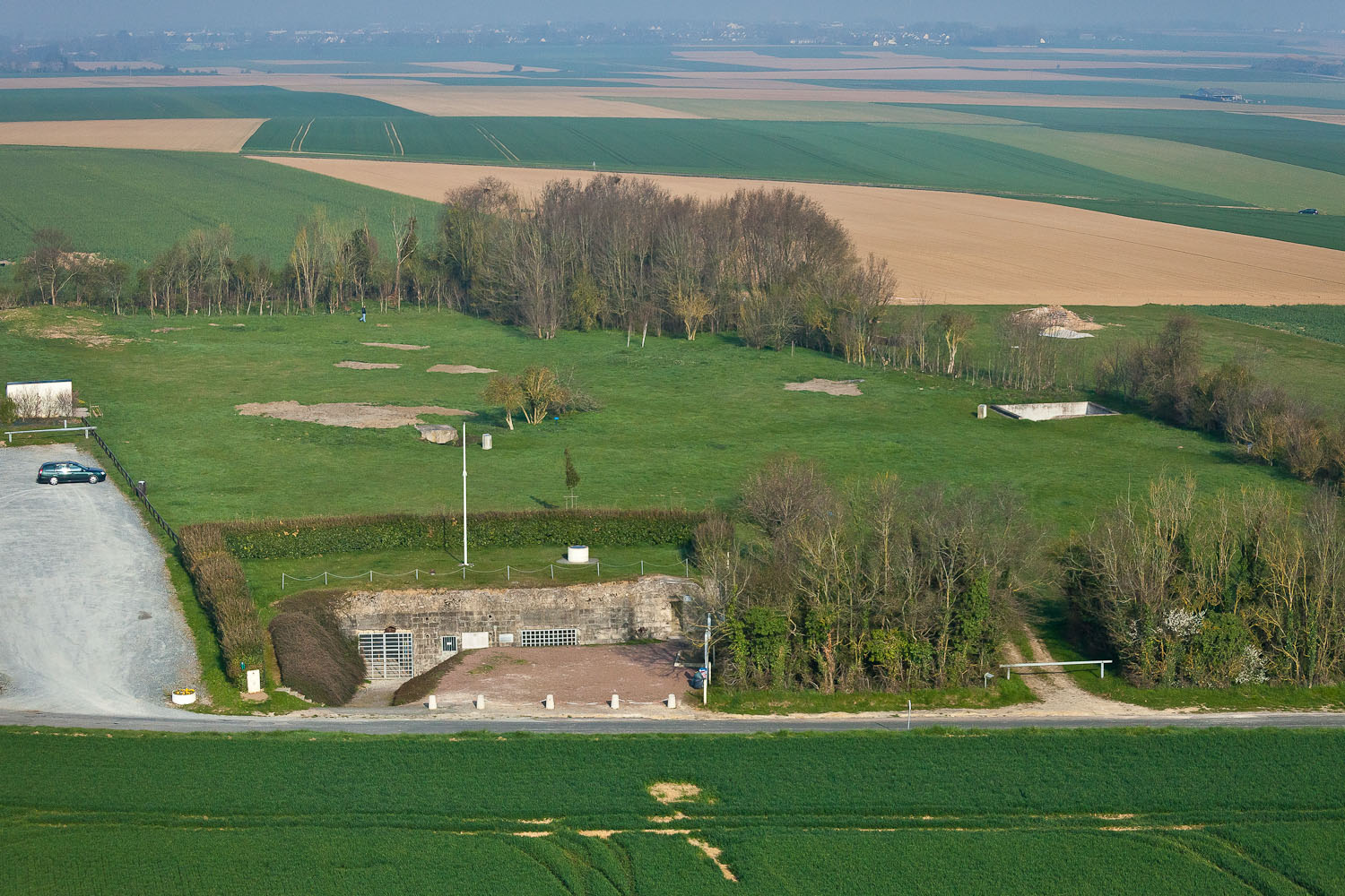 France, Basse-Normandie, Calvados (14), Colleville-Montgomery, Hillman fortified site, the coastal German command post (aerial view)